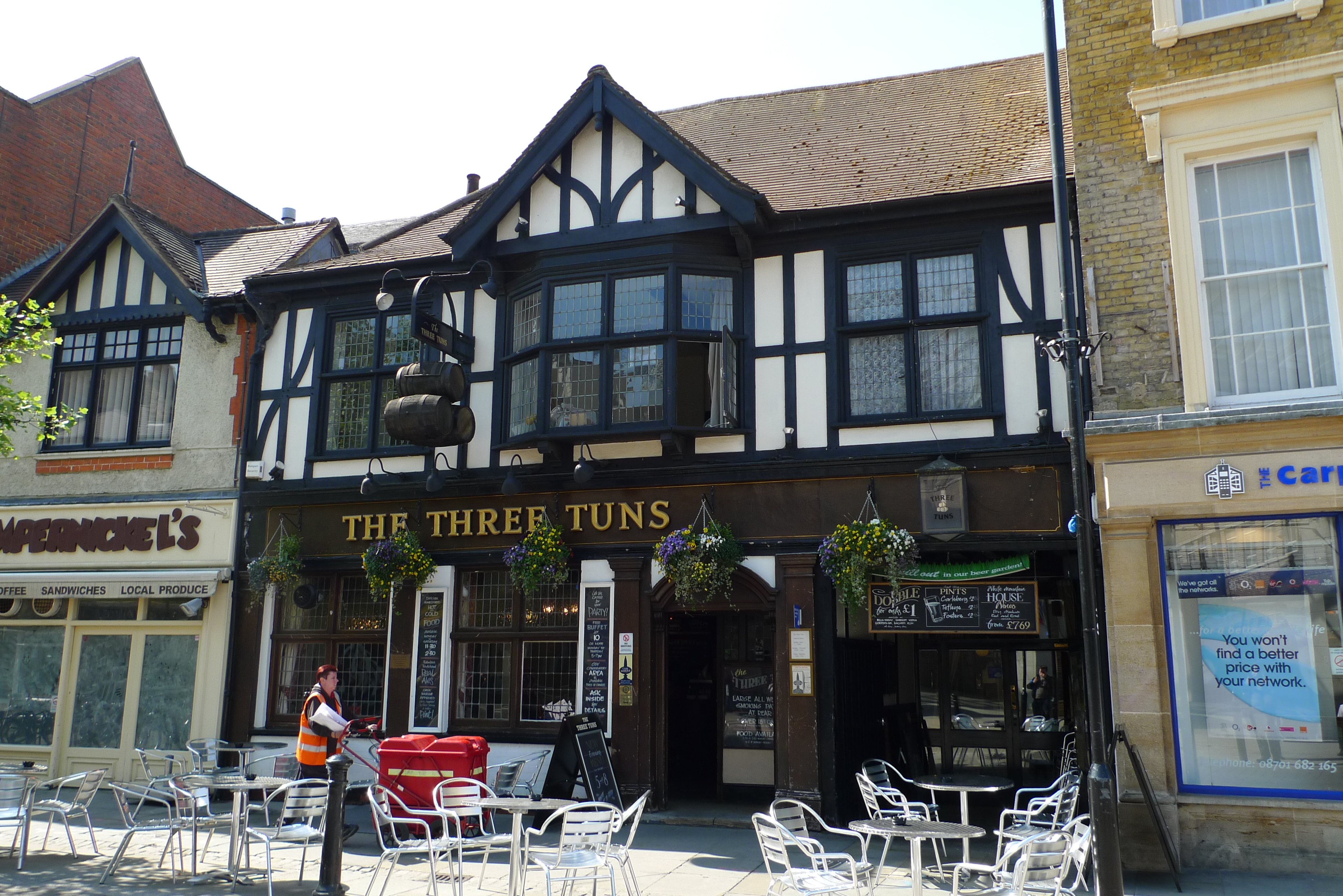 A pub in the centre of Uxbridge. Address: 24 High Street. Owner: Spirit Pub Company [Original Pub Company] (website); Punch Taverns (former); Taylor Walker (former). Links: Fancyapint Pubs Galore Beer in the Evening Pubs History (history)